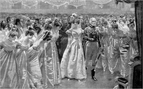 The 1826 débutantes' ball at Dublin Castle in presence of Richard Wellesley and his wife Lady Marianne Caton Patterson, viceroy and vicereine of Ireland.